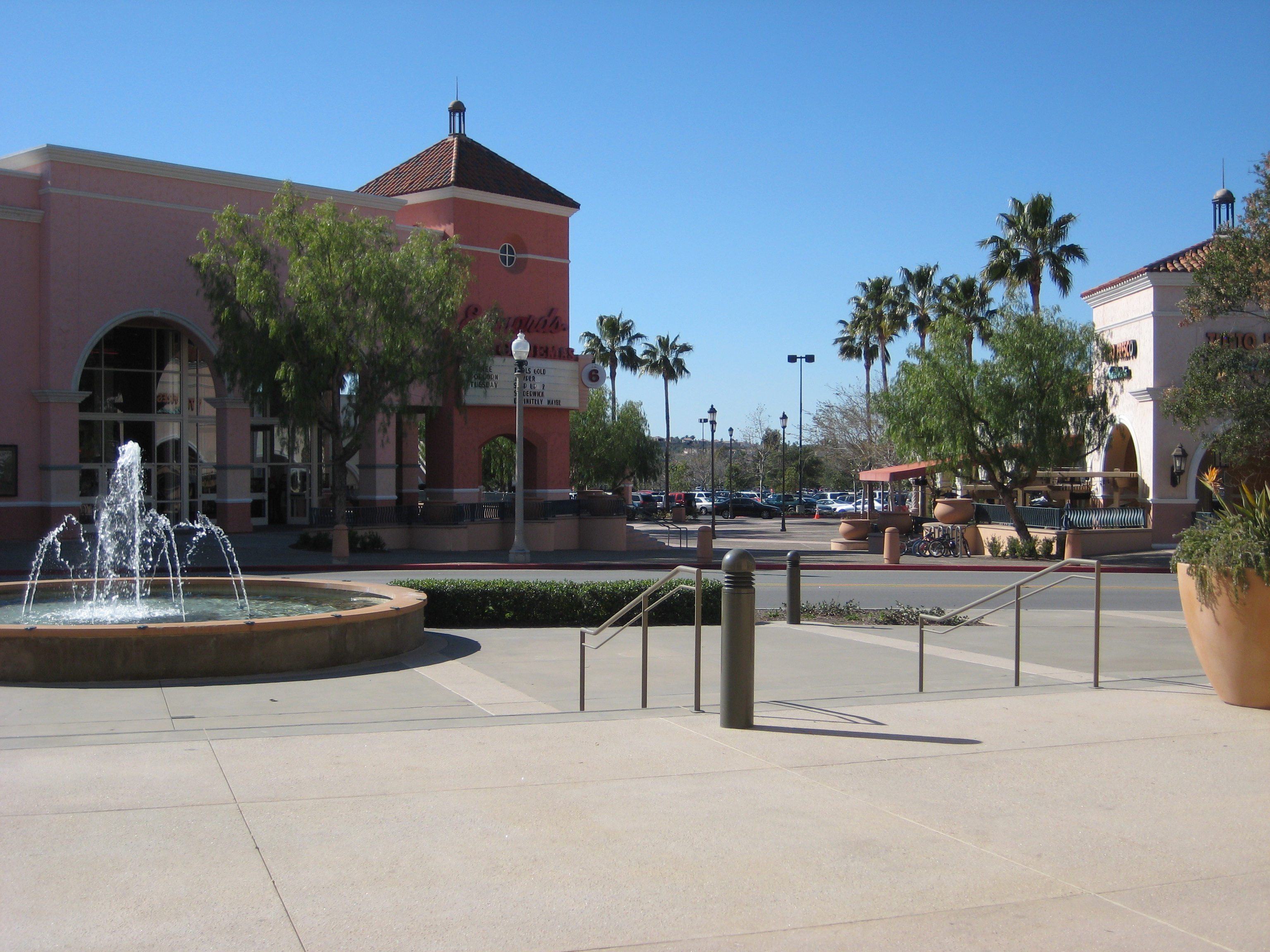 A plaza located in Rancho Santa Margarita, California.